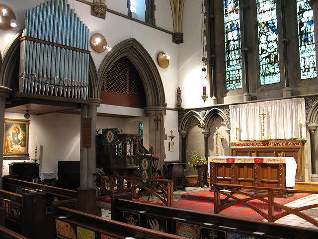 St Luke's church, Kew - chancel. The chancel of this Victorian church is all that is left as a worship area, the nave having been converted to community use. For an exterior view and potted history see 1526467. The organ pipes here are 'display' pipes only, and are all that is left of the original pipe organ - the church now has a freestanding chamber organ.